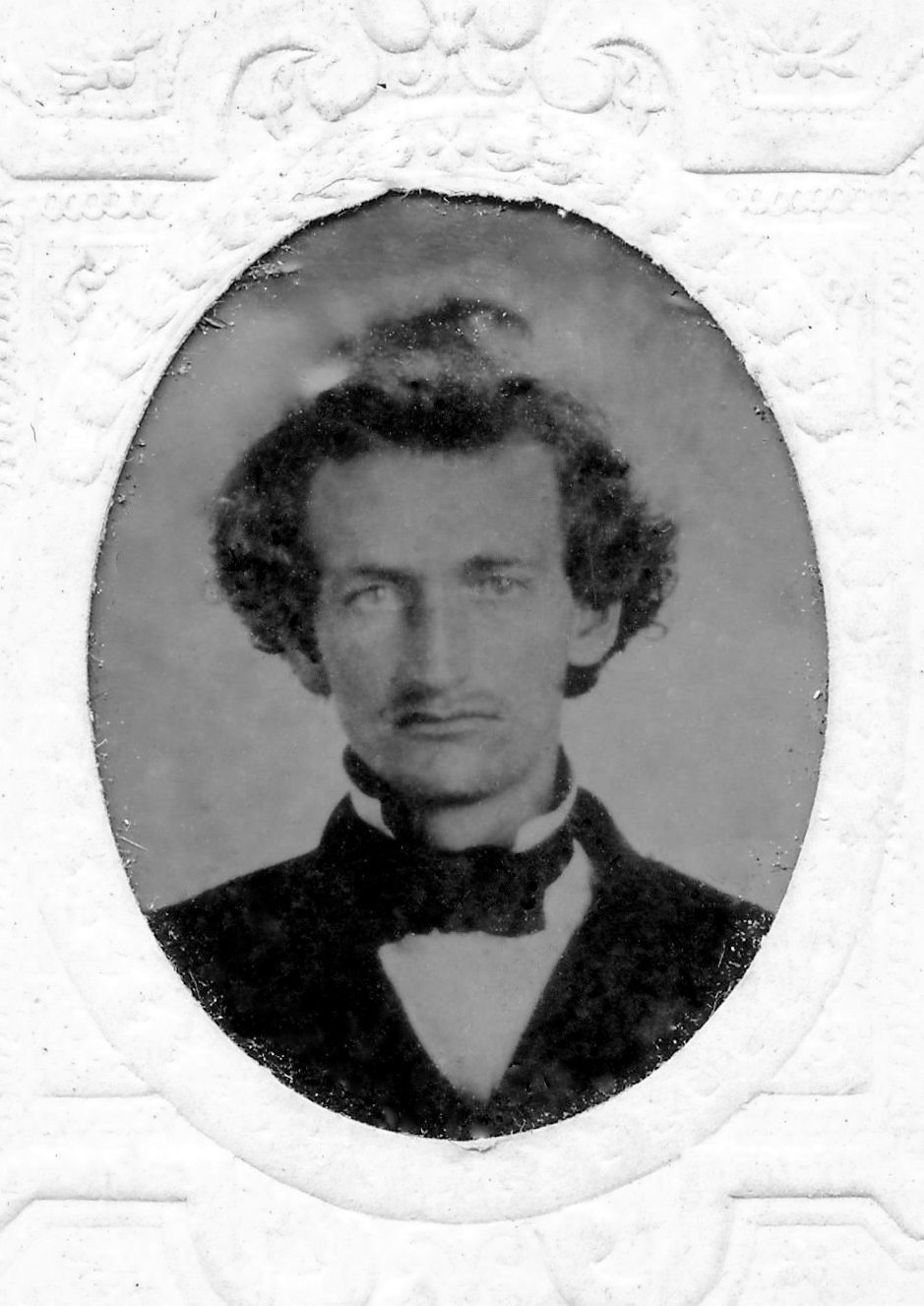 James M. Hinds from family archive